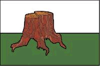 Municipal flag of Kařez village, Rokycany District, Czech Republic.